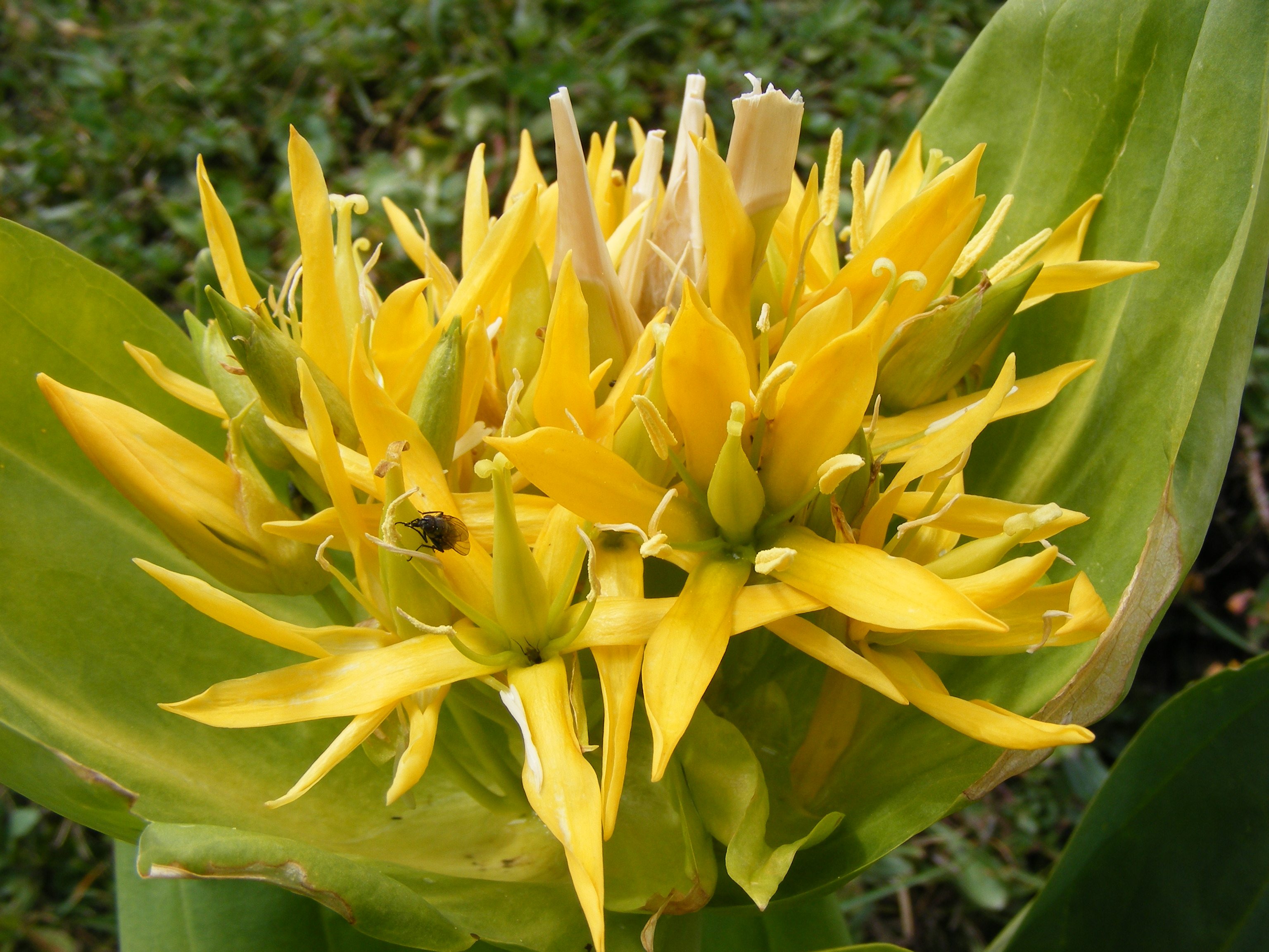 This photo shows gentiana lutea Whorl of flowers